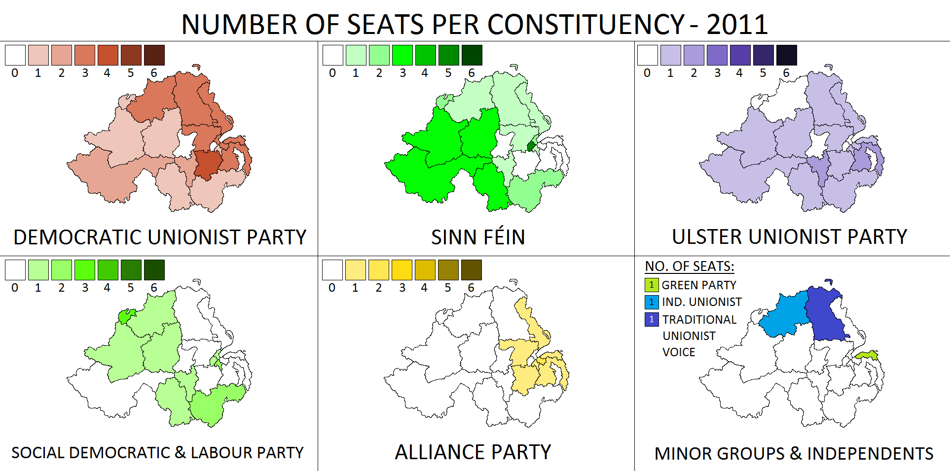 Map showing the results of the 2011 Northern Ireland Assembly election.